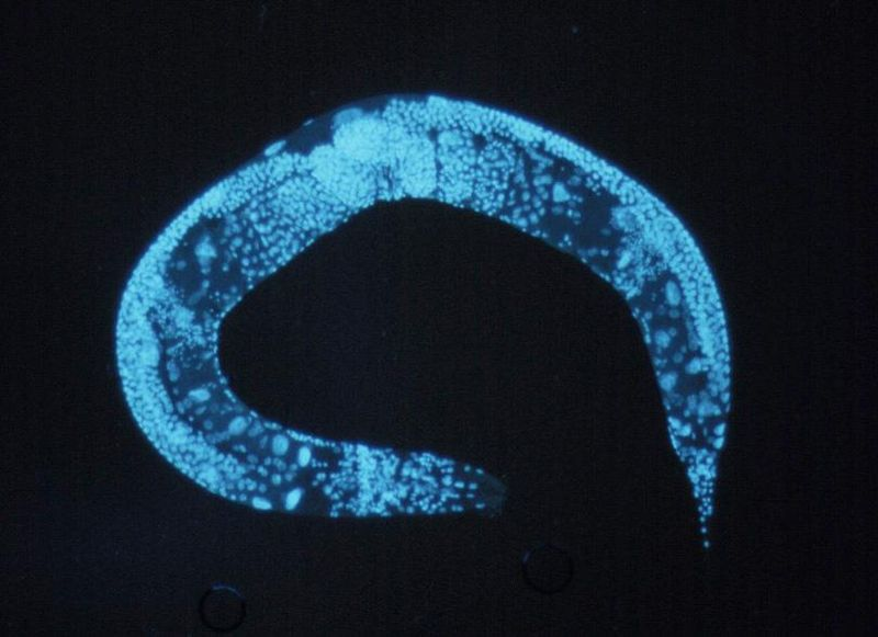 Enlarged c elegans